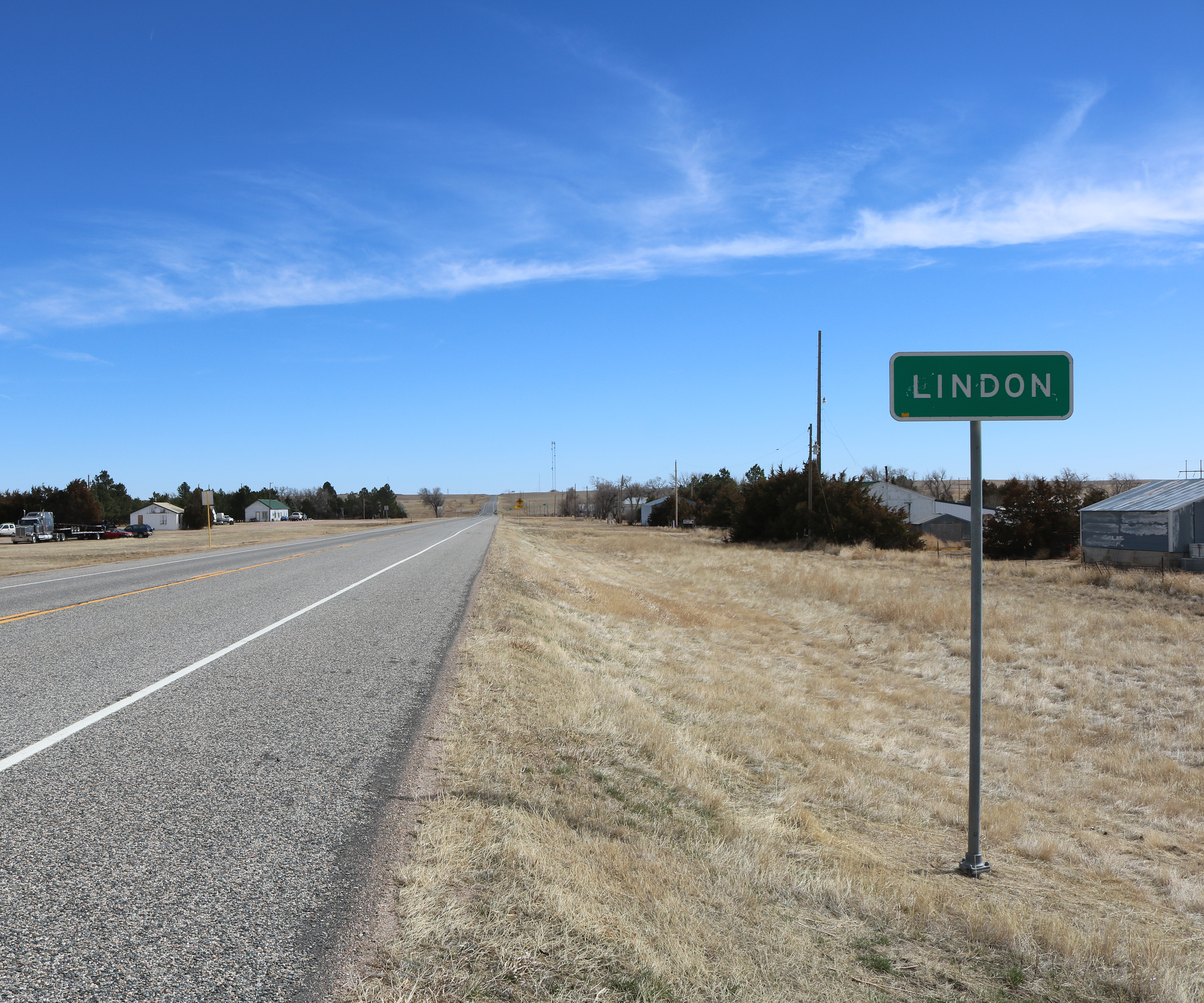 Lindon, Colorado, looking east along U.S. Route 36.